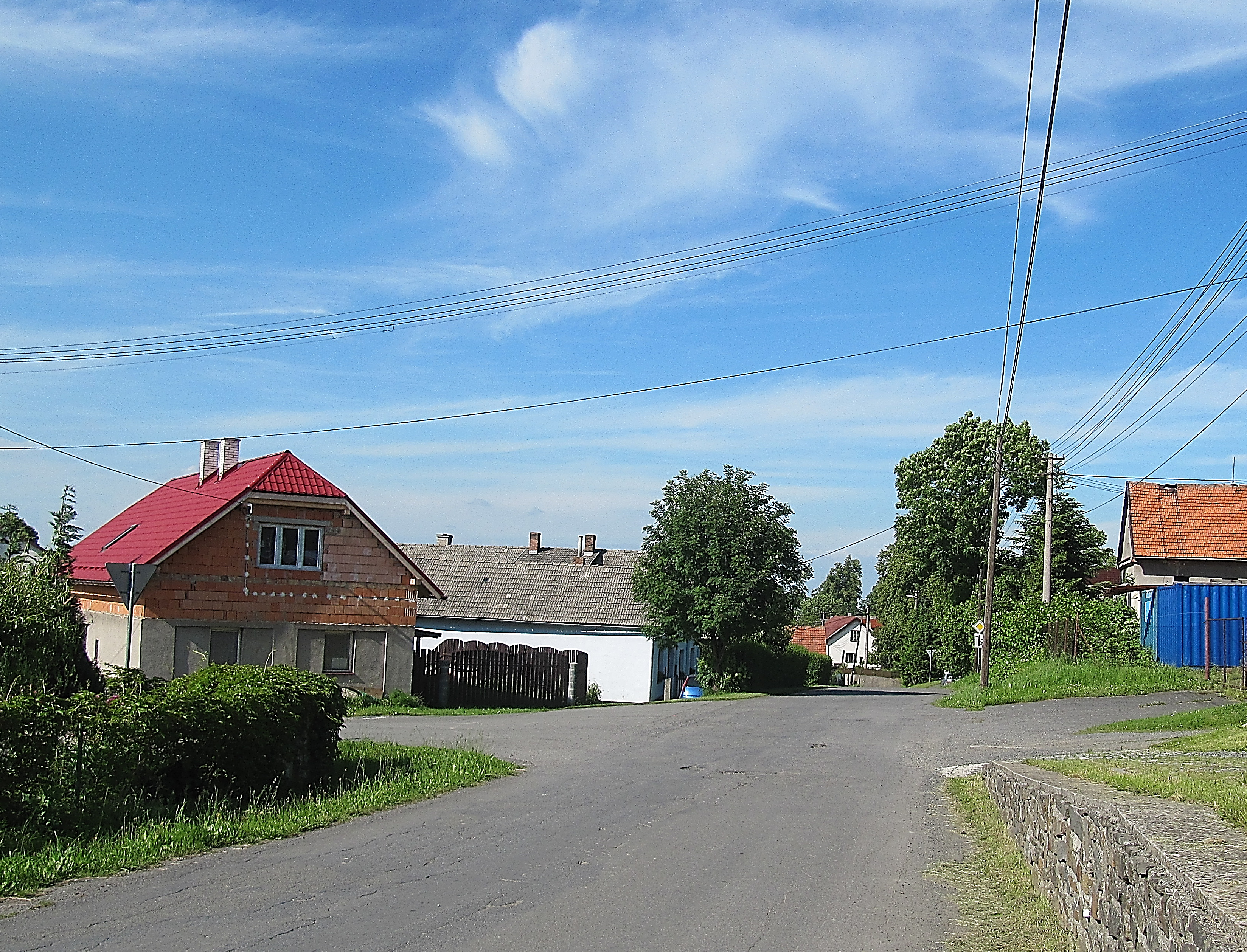 Odry, Nový Jičín District, Czech Republic, part Pohoř.